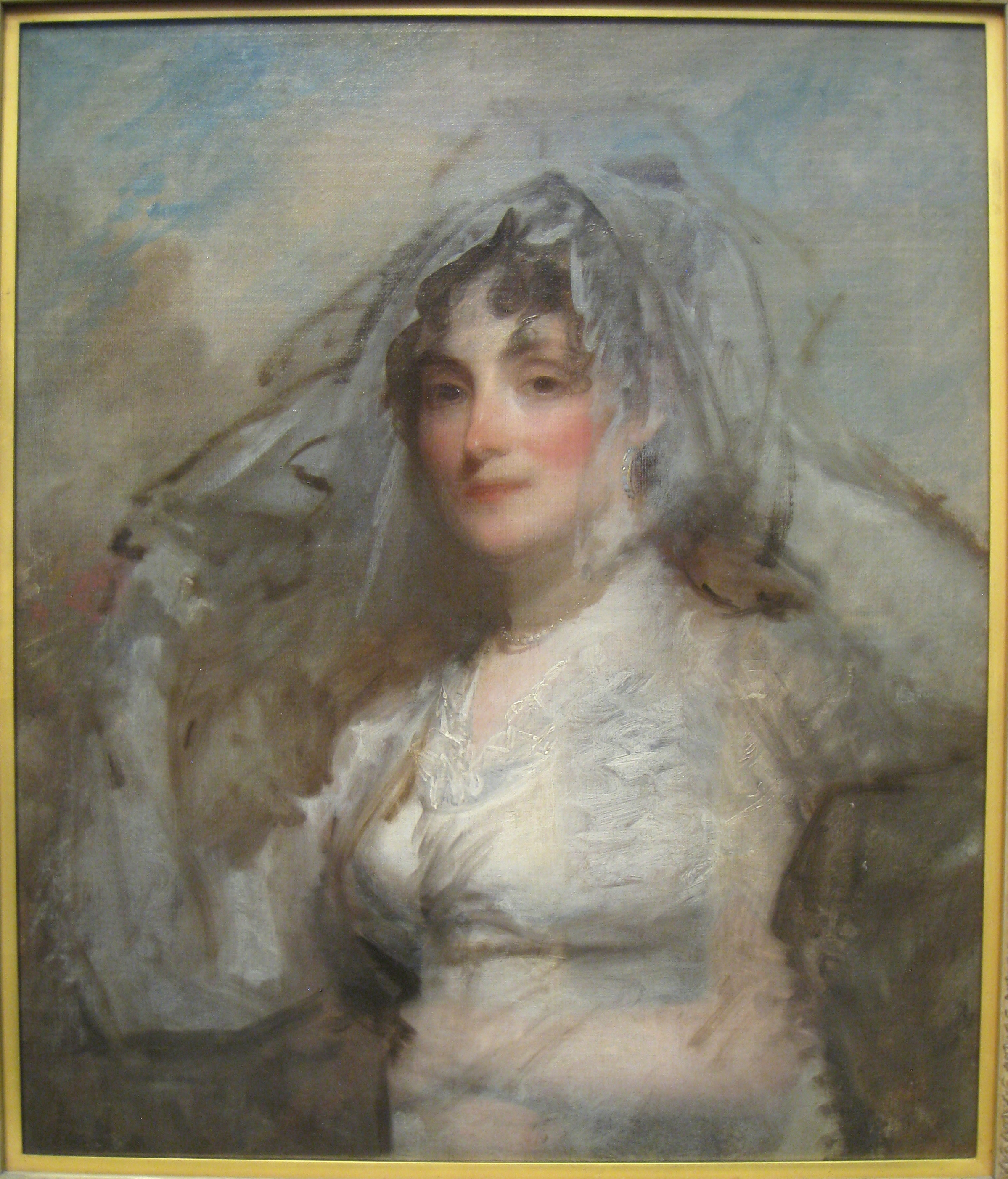 Sarah Wentworth Apthorp, Mrs. Perez Morton